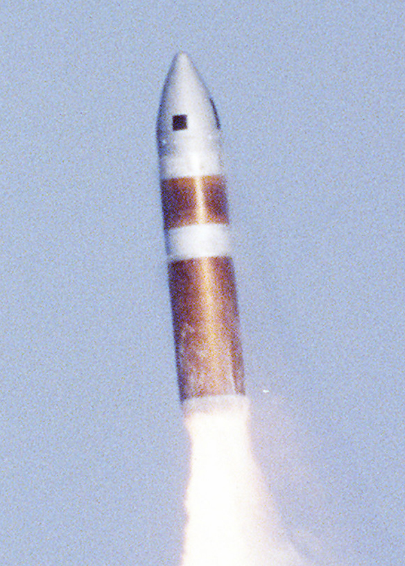 A Poseidon C-3 (UGM-73A) fleet ballistic missile lifts off after being launched from the submerged nuclear-powered strategic missile submarine USS ULYSSES S. GRANT (SSBN-631). This is the 70th test launch of a Poseidon C-3.